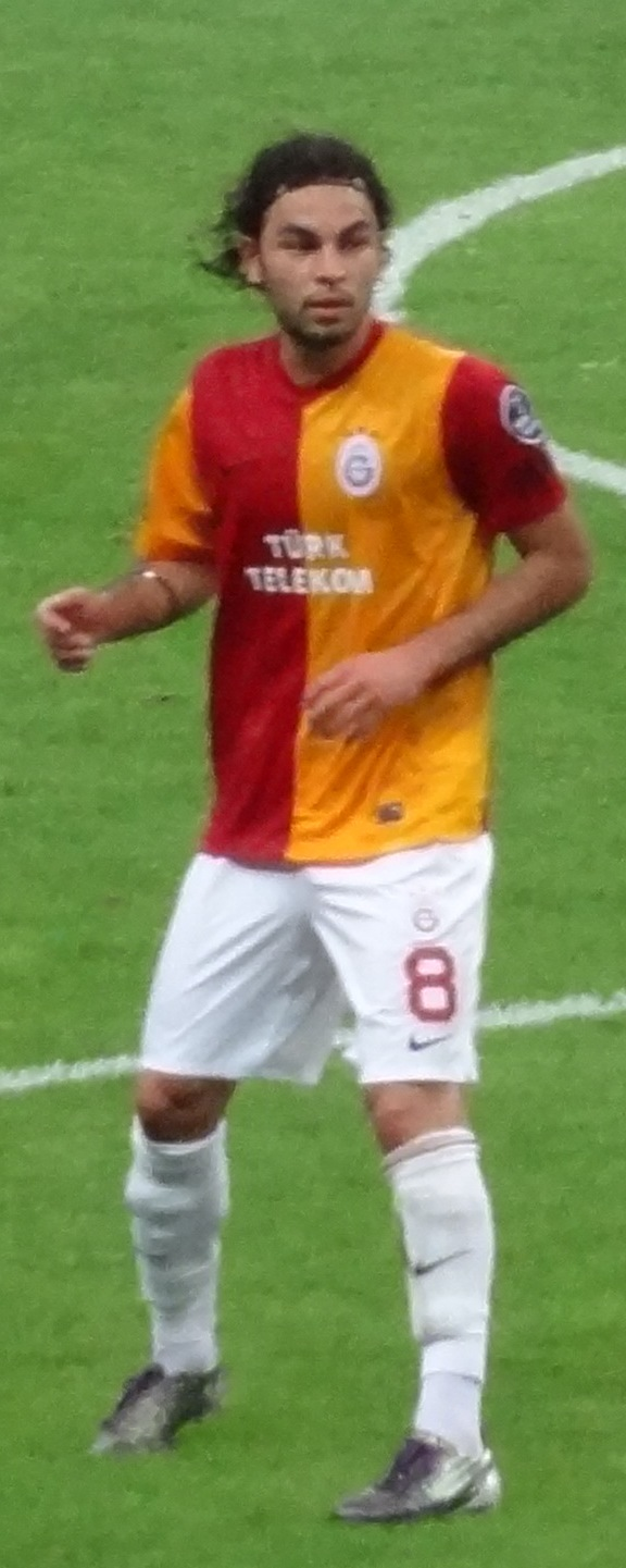 selçuk scored his first goal at this match